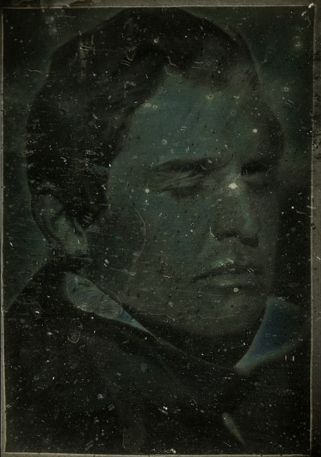 Self-portrait daguerreotype of Henry Fitz, Jr